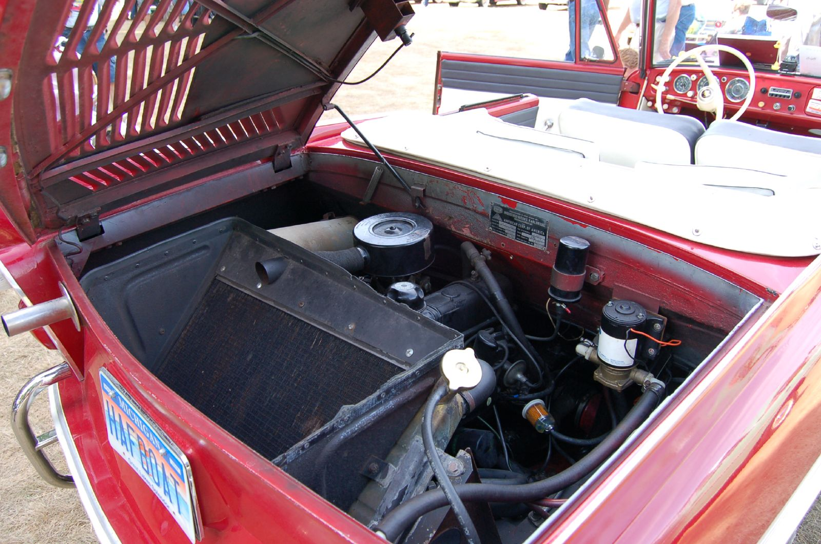 Taken during the 2007 "Red Barns Spectacular" car show at the Gilmore Car Museum, Hickory Corners, Michigan.